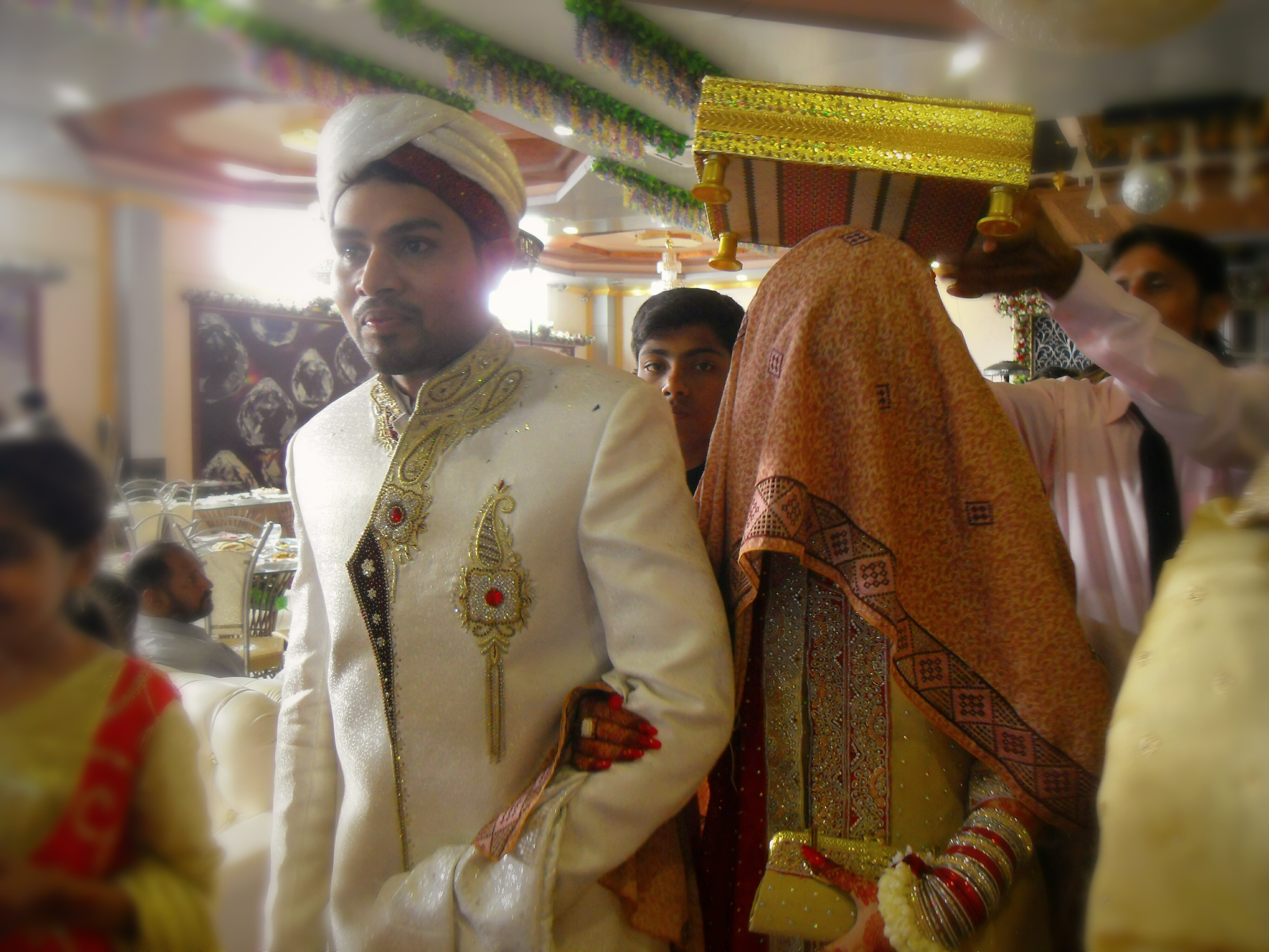 The bride going away with the groom to his house after a Muslim marriage in Pakistan.